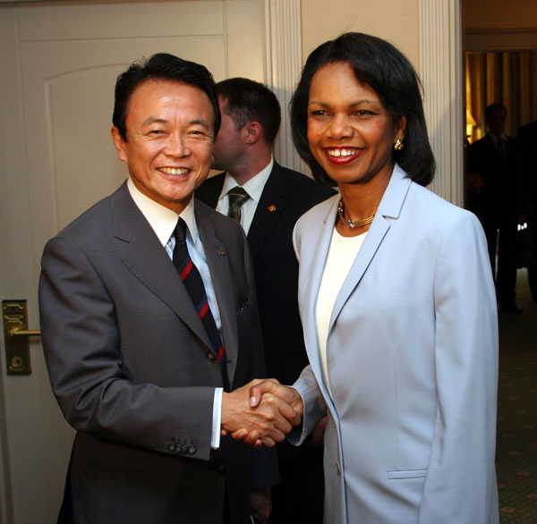 Secretary Rice meets with Japanese Minister of Foreign Affairs Tarō Asō for bilateral meetings at the G8 meeting for the Ministers of Foreign Affairs.